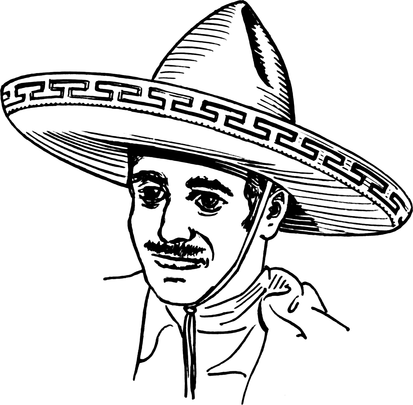 Line art representation of an Sombrero